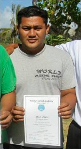 Mati_Fusi